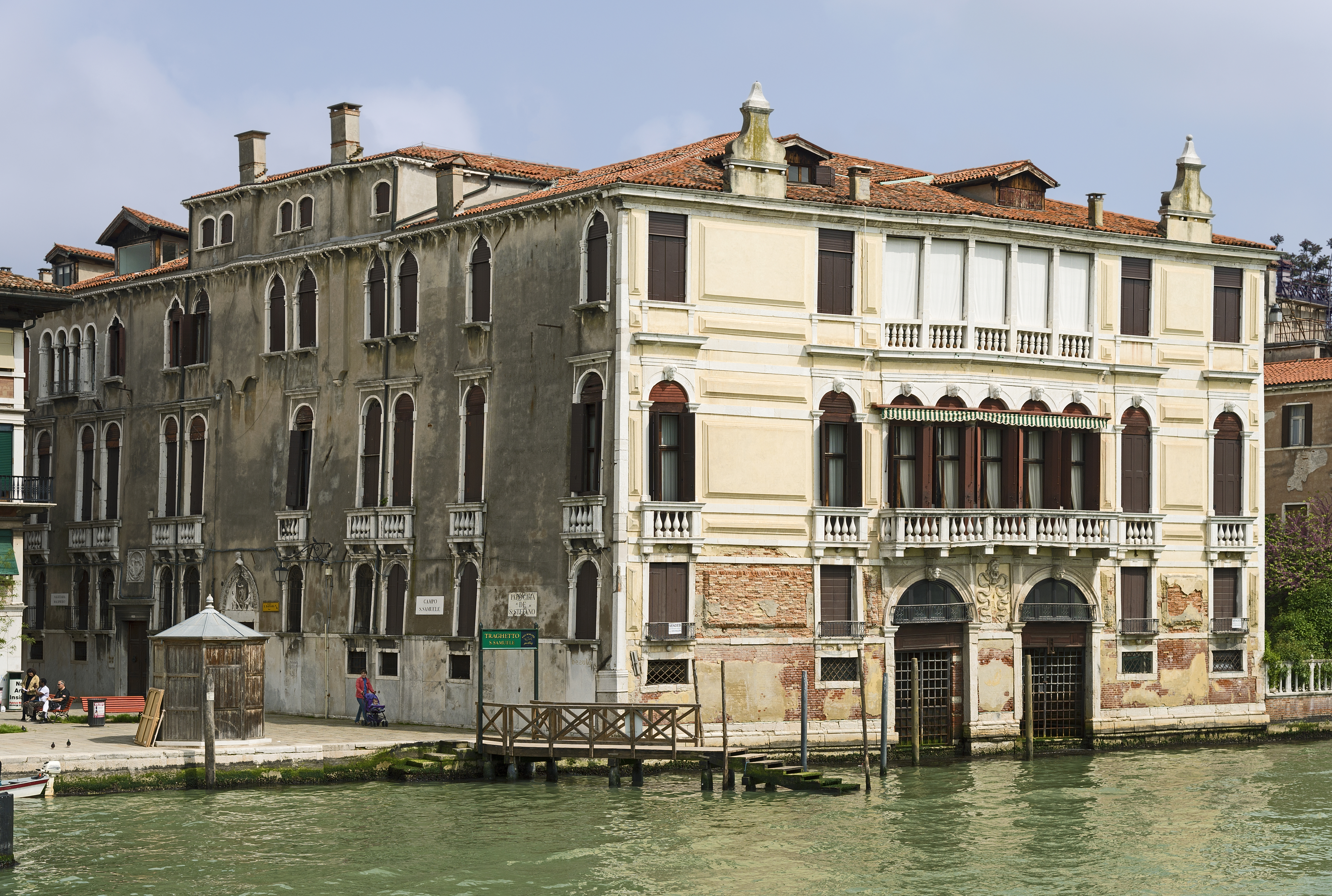 Palazzo Malipiero Venice. Facade on Grand Canal.